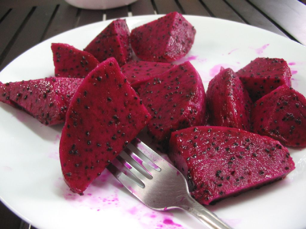 Red fleshed pitaya; picture taken July 18, 2005 by Allen Timothy Chang.